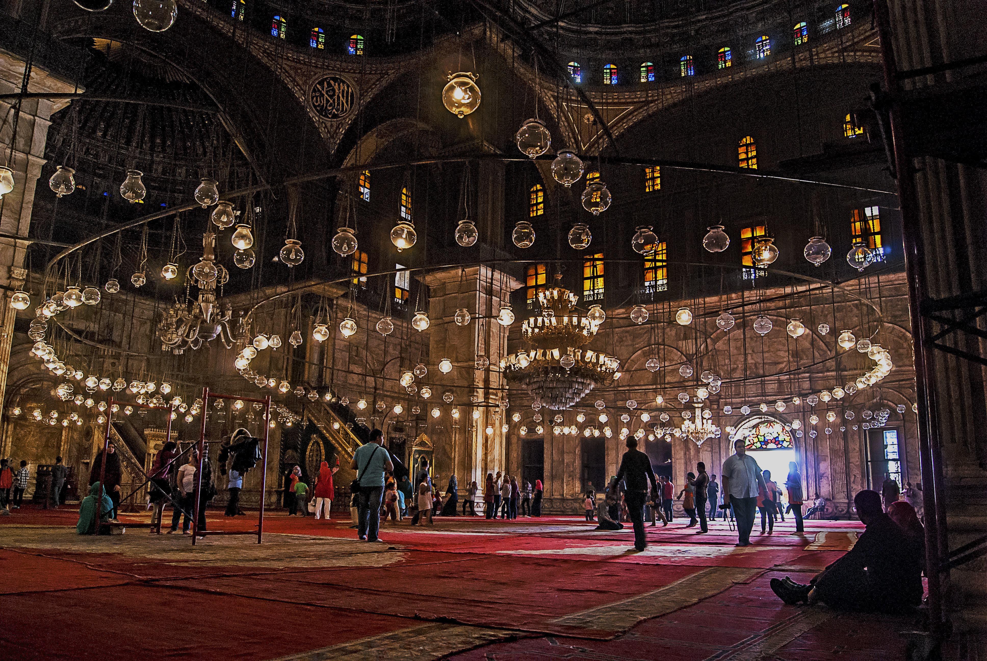 صوره لمسجد محمد علي من الداخل